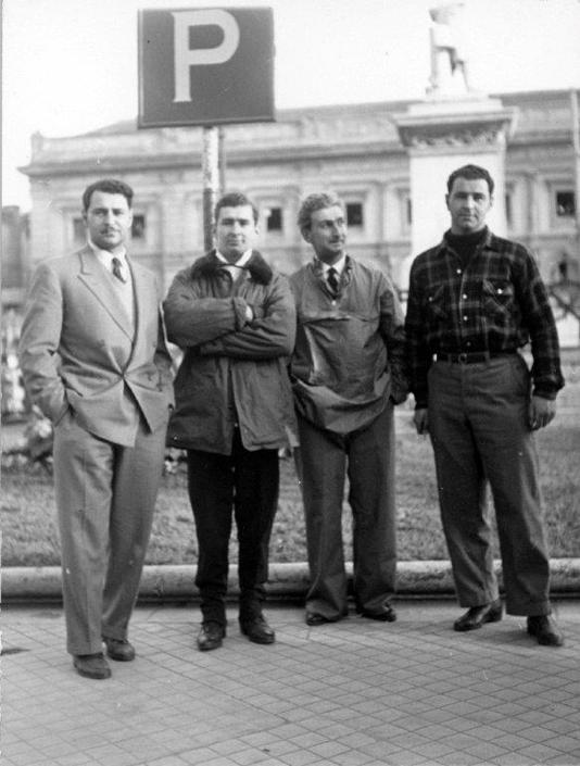 From left: Giannino, Paolo, Umberto and Vittorio Marzotto. They were active in auto racing in the 1950s. Wild guess, this is 1951.